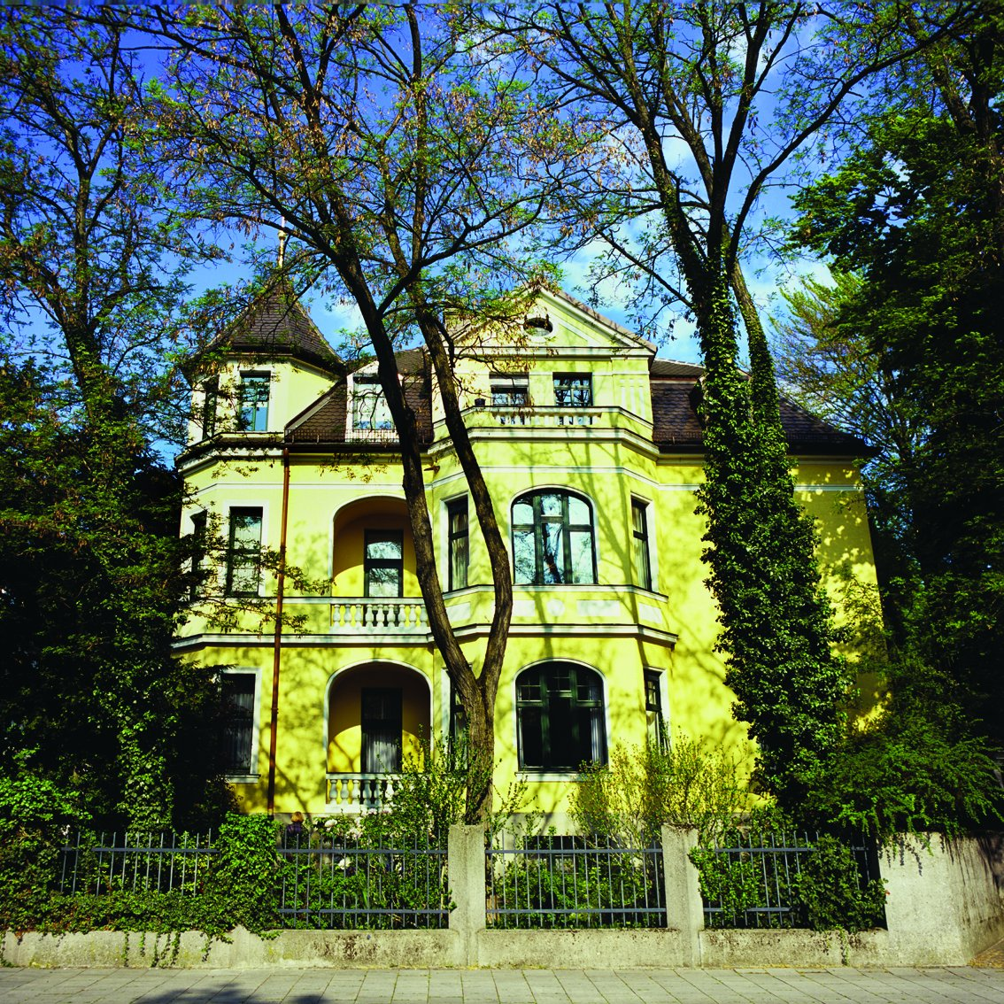 Seat of the Grail Movement in Germany, Munich